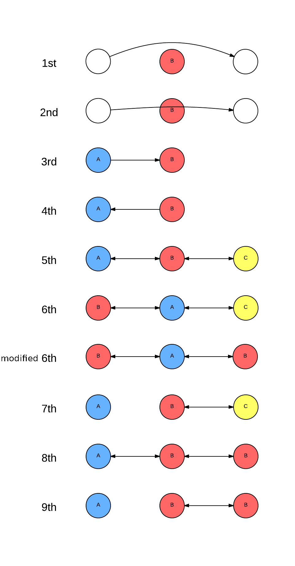 a diagram of the nine freedoms of the air, for use in the article Freedoms of the air